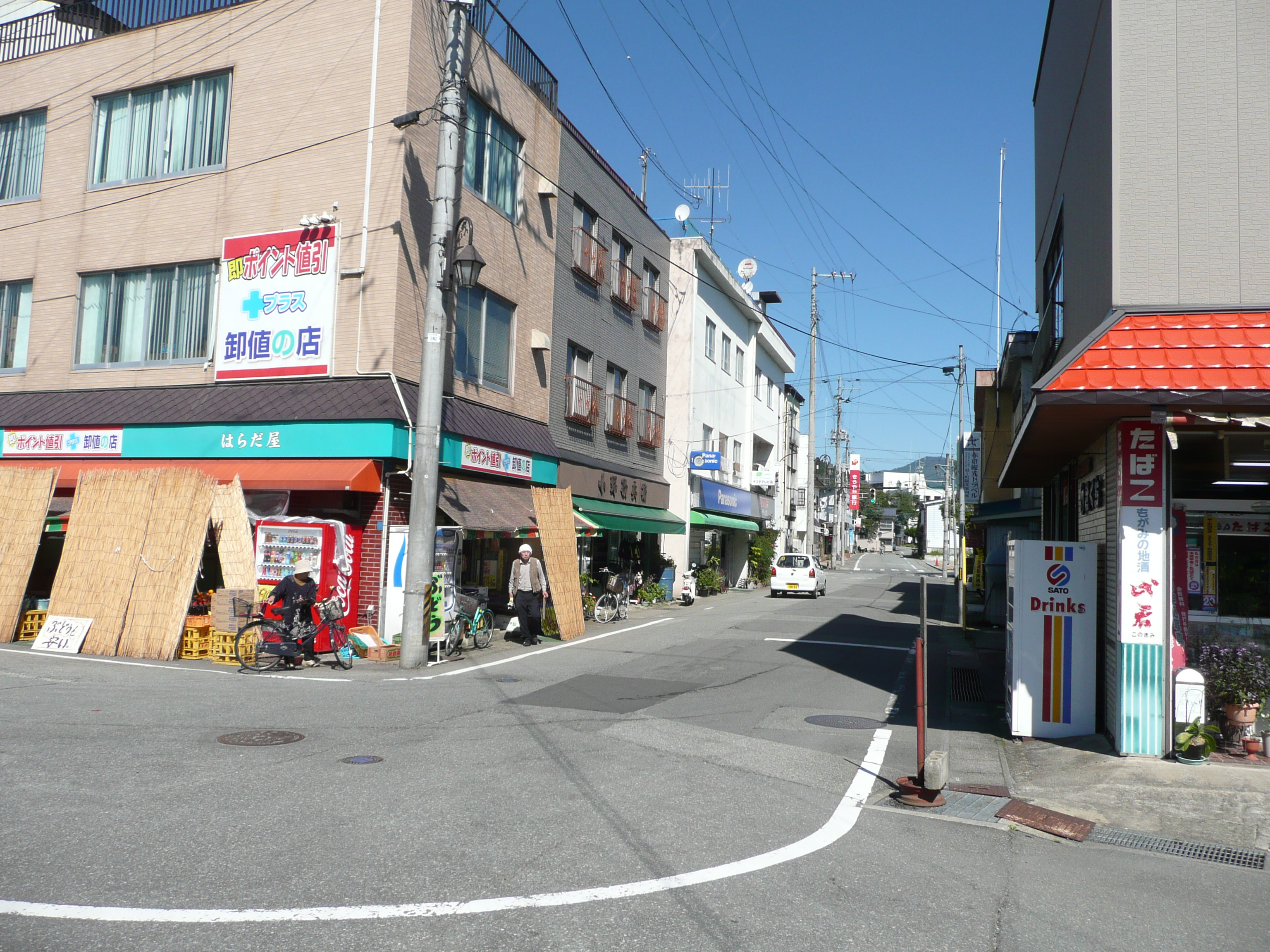 Mogami Station front